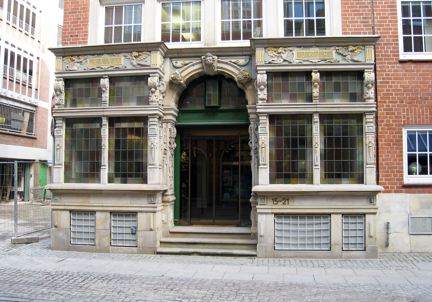 Entrance and bay windows of the Essighaus (the “Vinegar house”) in Bremen (Germany). Largely destroyed by 1942 and 1944 air raids, these are the only parts remaining from this formerly precious Weser Renaissance building.